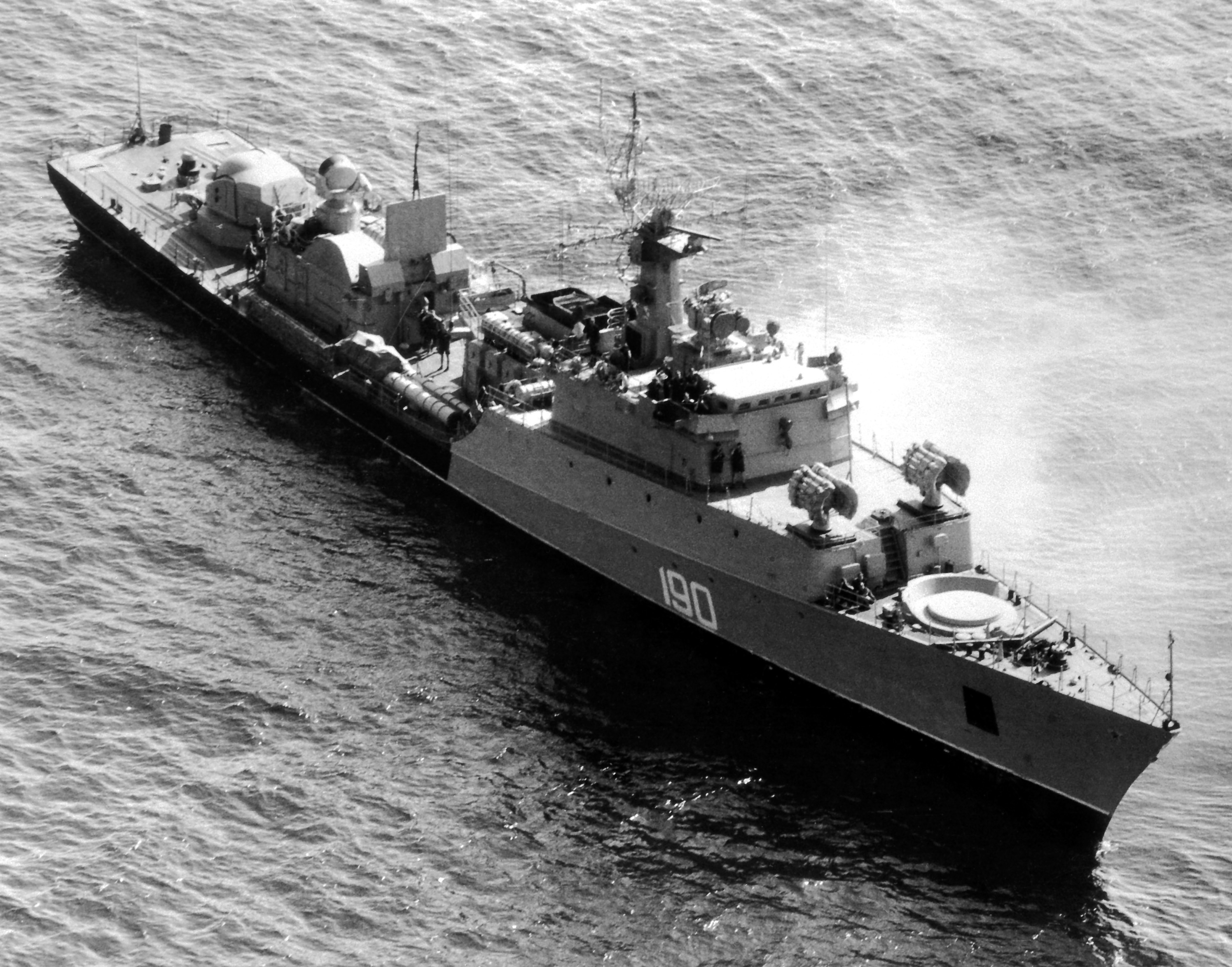 An aerial starboard bow view of a Soviet Grisha I class frigate underway.